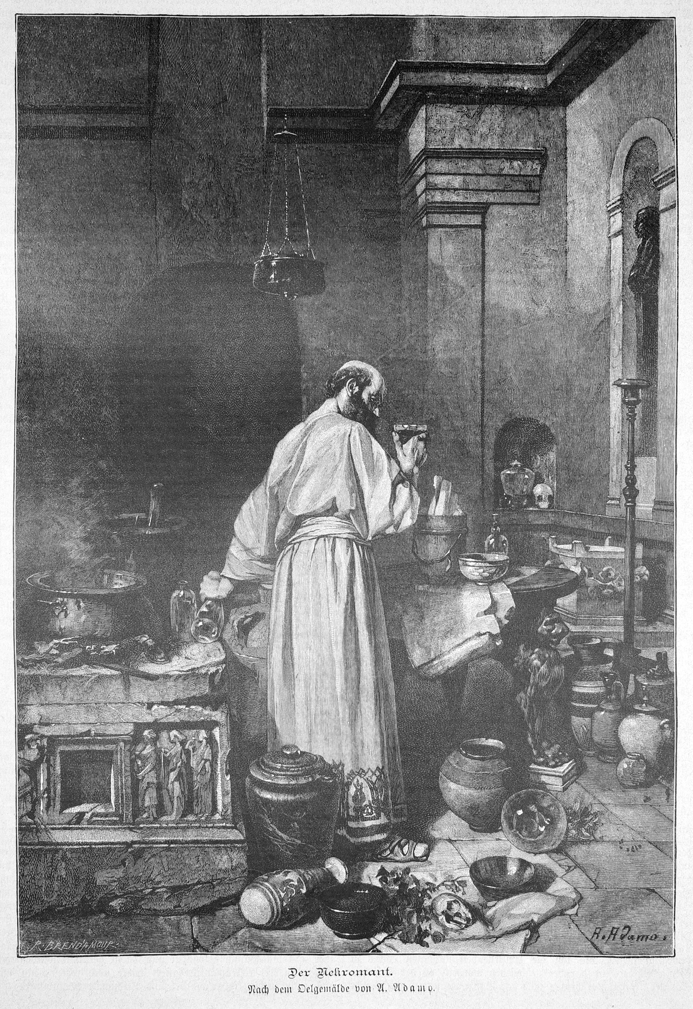 caption: "Der Nekromant. Nach dem Oelgemälde von A. Adamo."